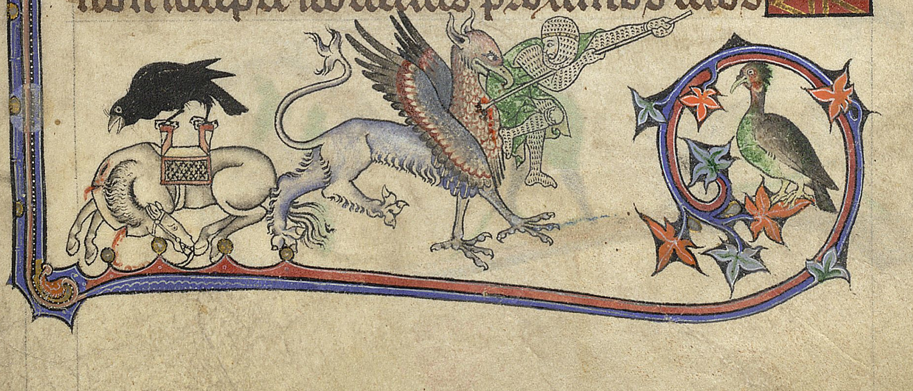 Heraldry on the first page of the Psalms text strongly suggests that this Psalter was commissioned by King Edward I for the marriage of his son Alphonso, to Margaret, daughter of Florent V, Count of Holland, which was to take place in 1284. Alphonso died before the wedding, however, and the decoration of the manuscript was left incomplete. Additions were made in the early 14th century, probably before 1316. In the lower border a horse lies dying, presumably wounded by the griffin (a fabulous monster with the head, wings, and claws of an eagle, and the hindquarters of a lion) which is being speared by the horse's rider, a soldier in a full suit of chain-mail.